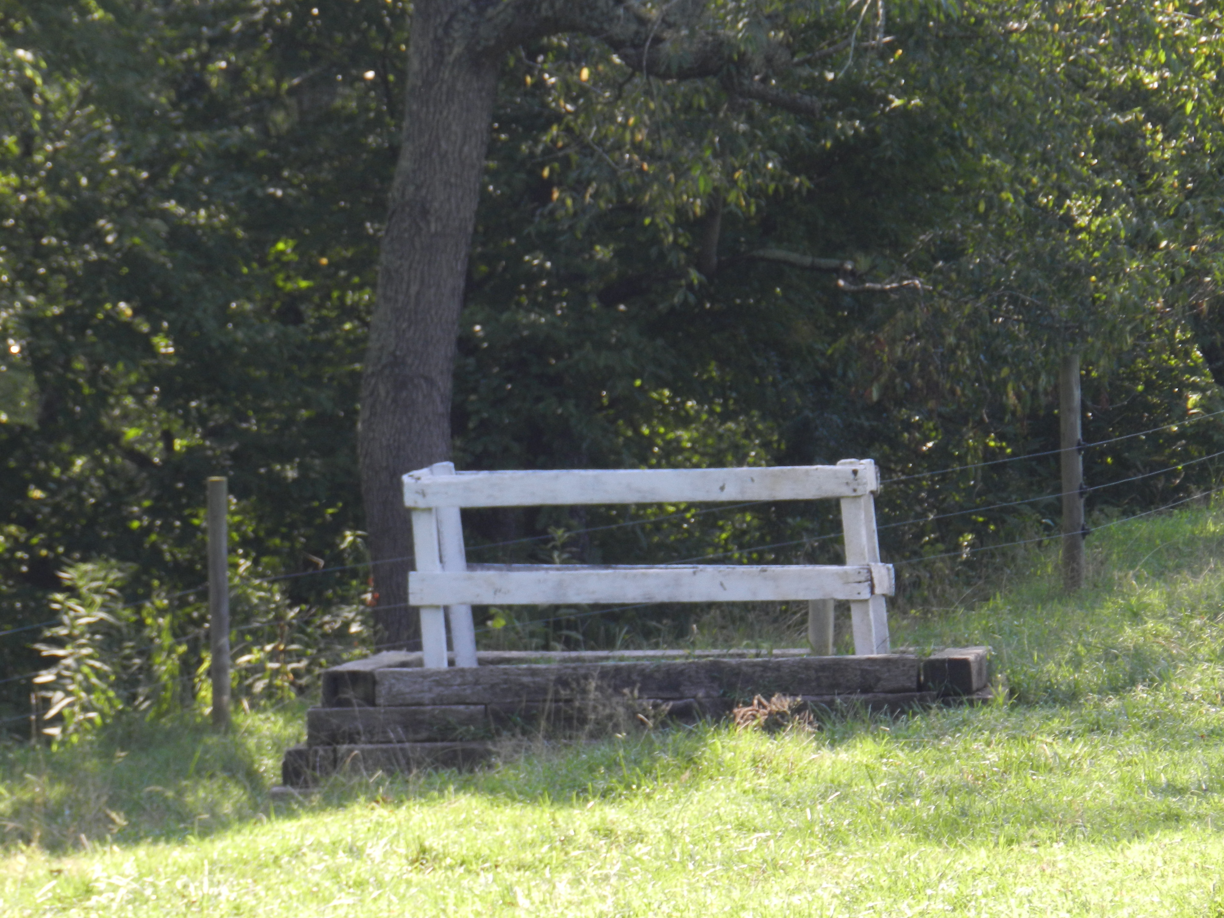 The grave of Laura Foster in Caldwell County, North Carolina, near NC Road 268. Laura Foster was the victim in the Tom Dooley case.